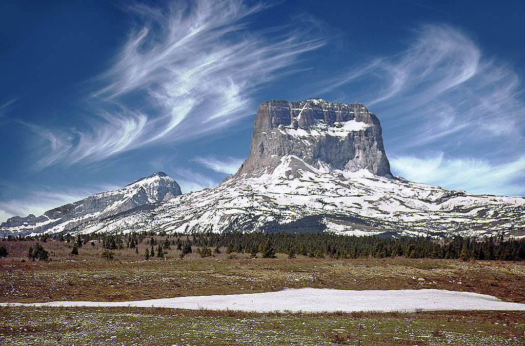 Chief Mountain in Montana, USA.